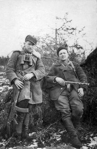 Kretinga district partisans